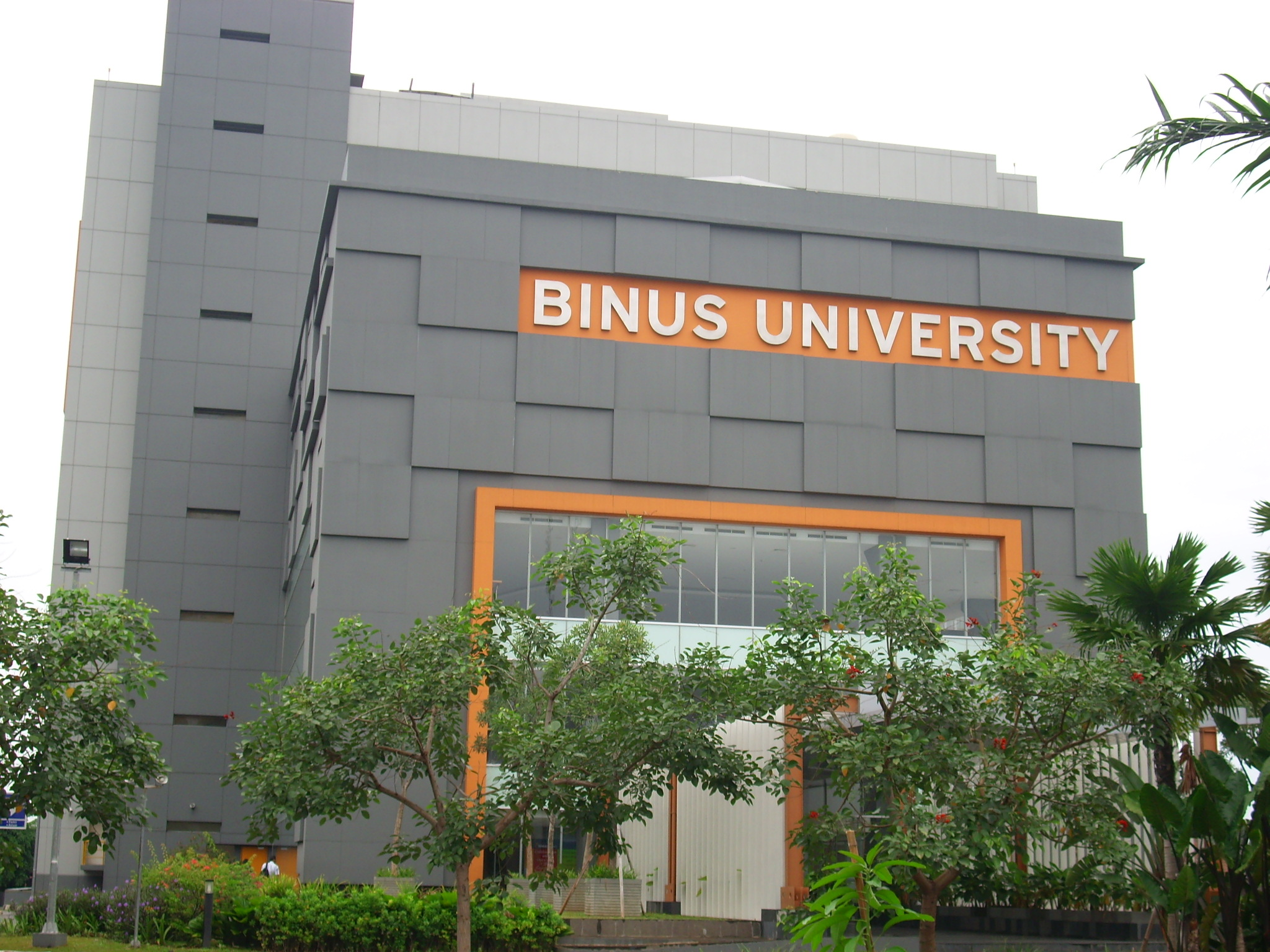 This is the photo of Anggrek Campus of Bina Nusantara University. This building is located at Kebon Jeruk Raya Street, 27, Kebon Jeruk, Jakarta Barat 11530.